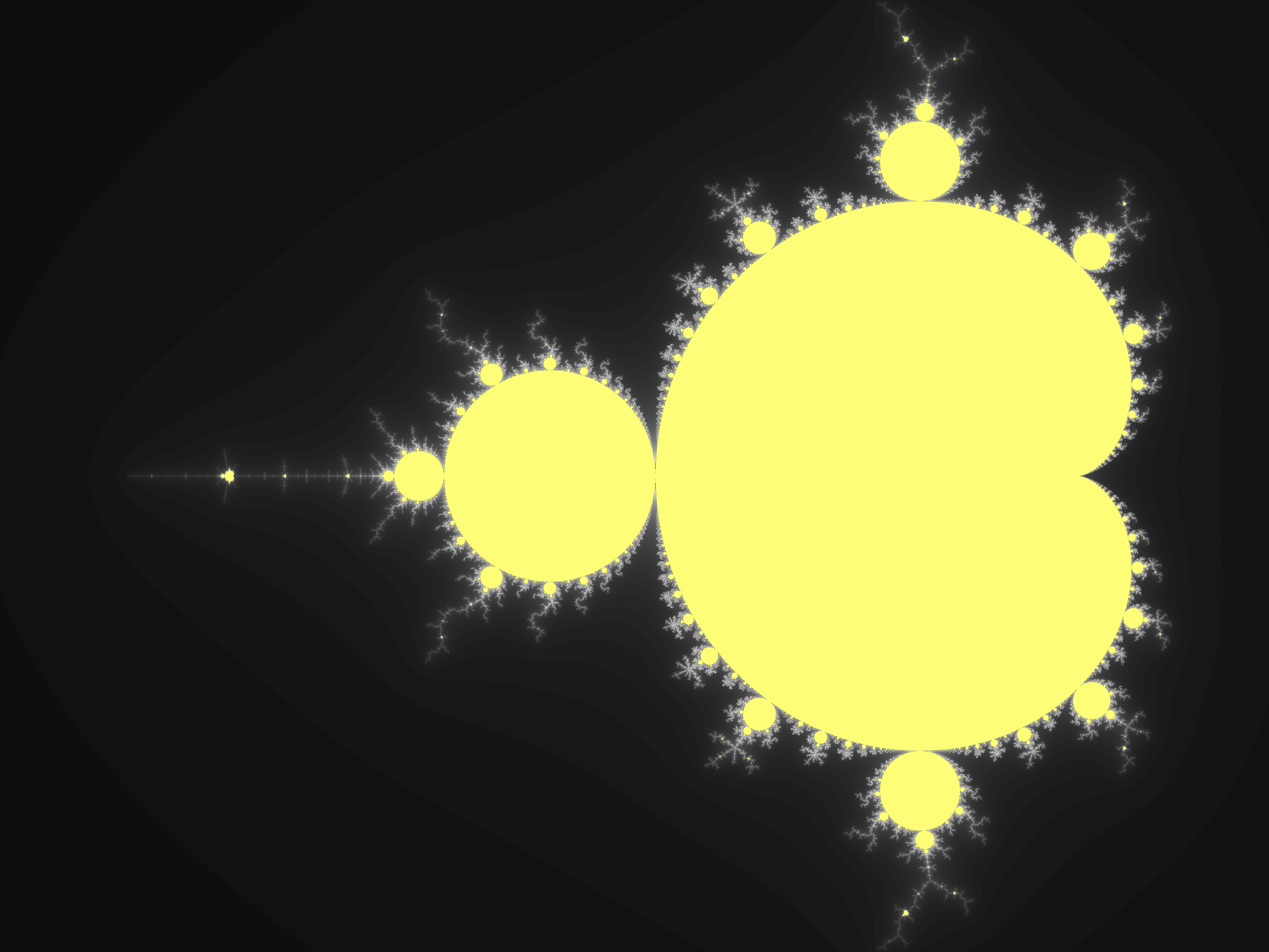 A very big size fractal (6400x4800 pixels) made in Infinity by JMBatlle